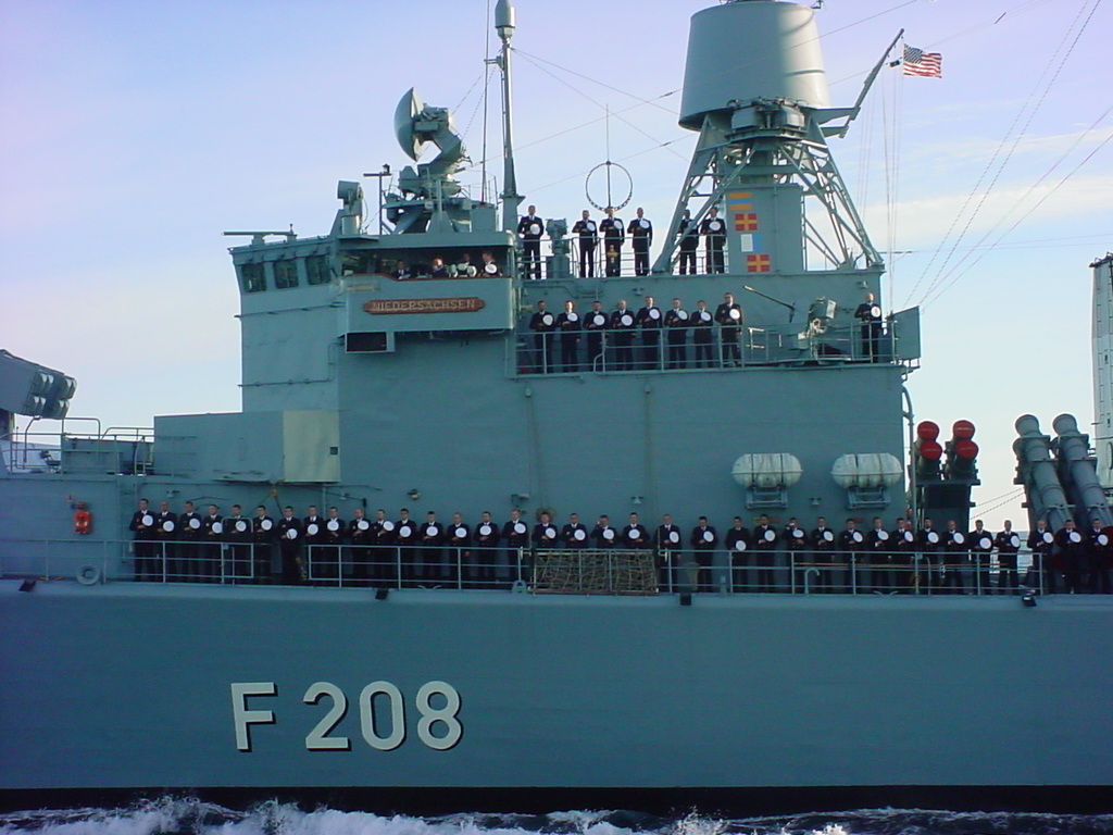 German frigate Niedersachsen renders honours -- At about 0800 hrs local time on 11 September 2003, the U.S. Navy frigate USS Doyle (FFG-39) received a request from the Niedersachsen (F208) to allow a close pass to starboard. The crew of the Niedersachsen rendered honours to the United States by manning the rail in their dress uniforms, their covers held over their hearts.